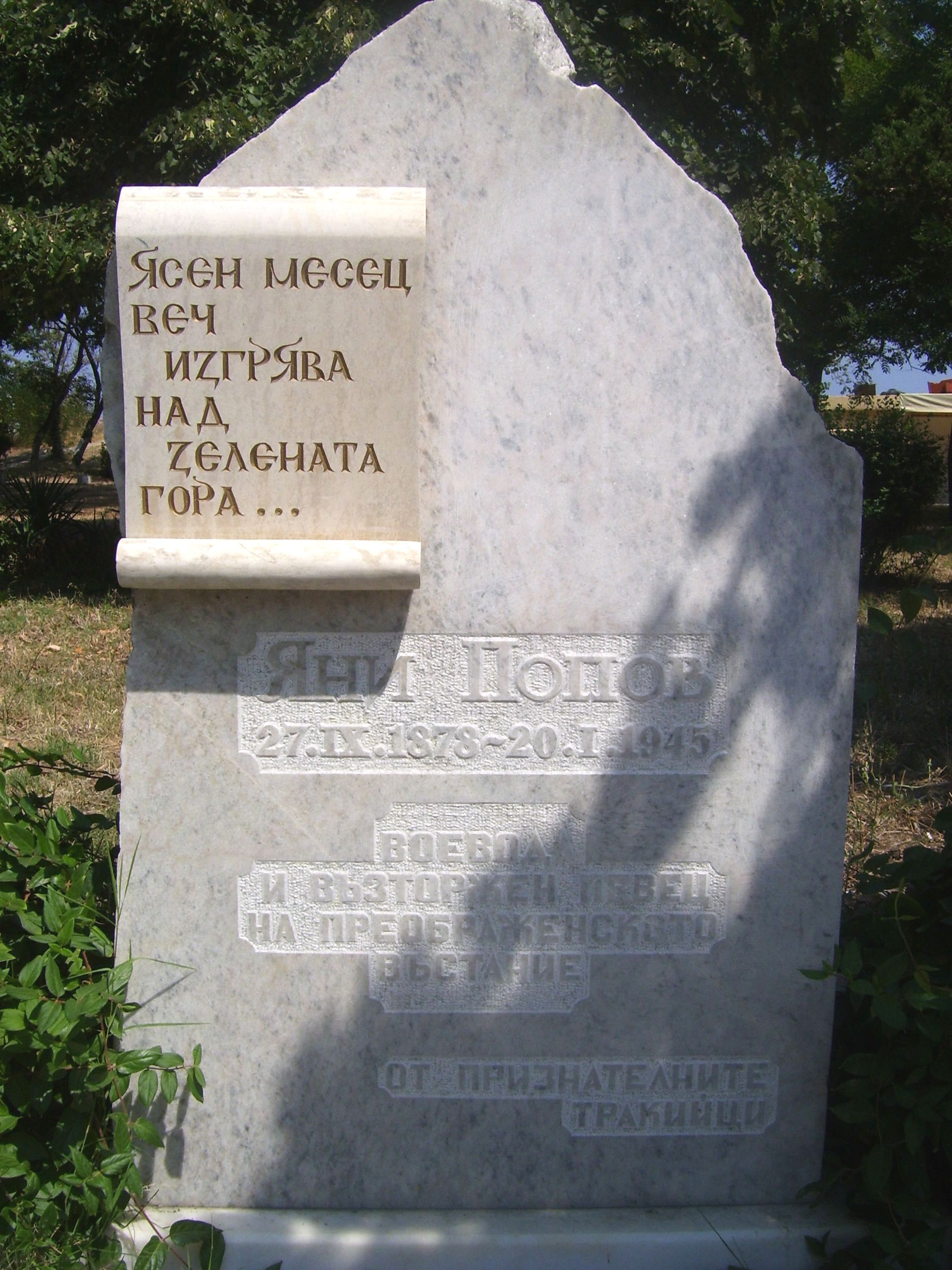 Memorial stone of Yani Popov in Sozopol, Bulgaria.